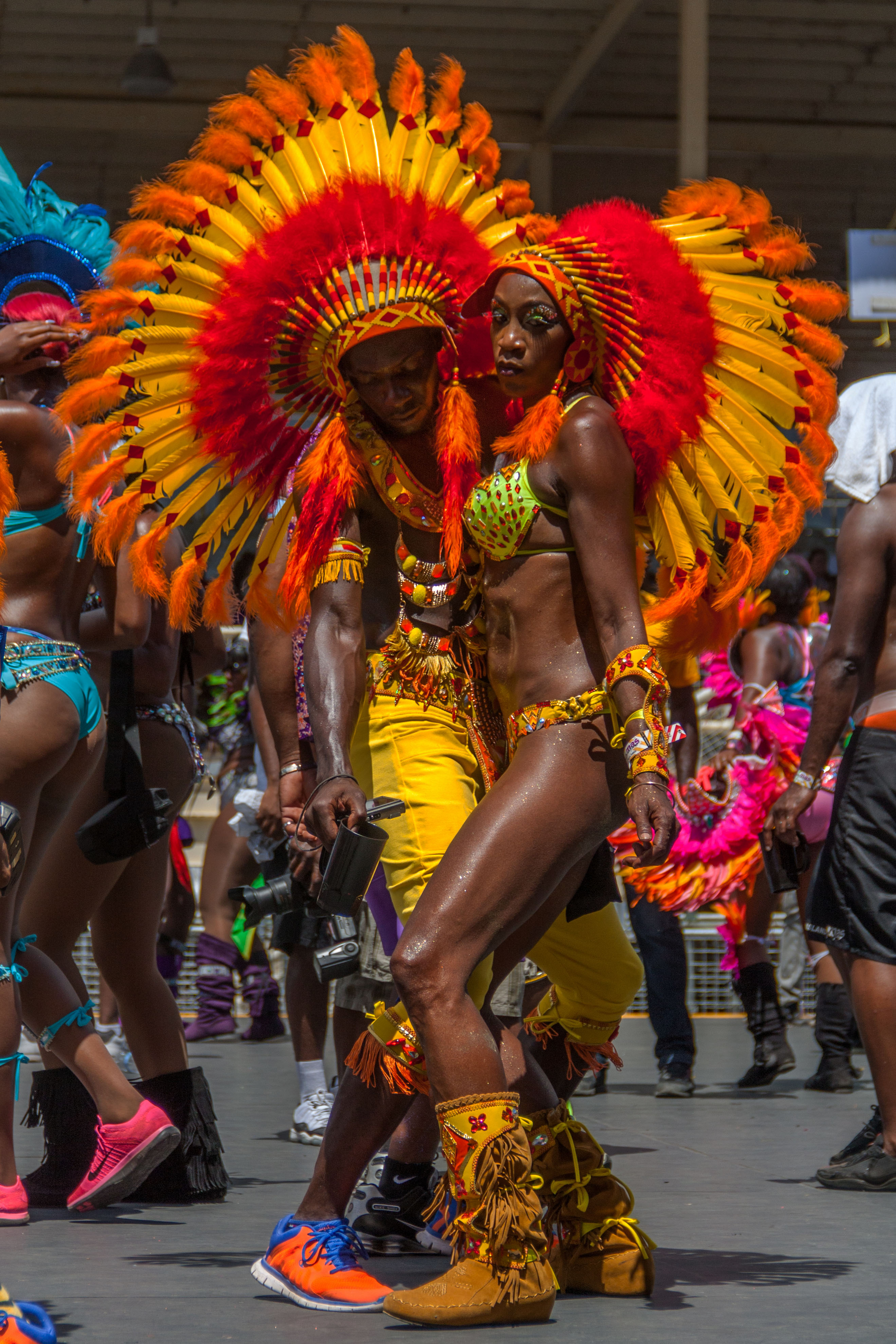 Parade of the Bands, Trinidad & Tobago Carnival